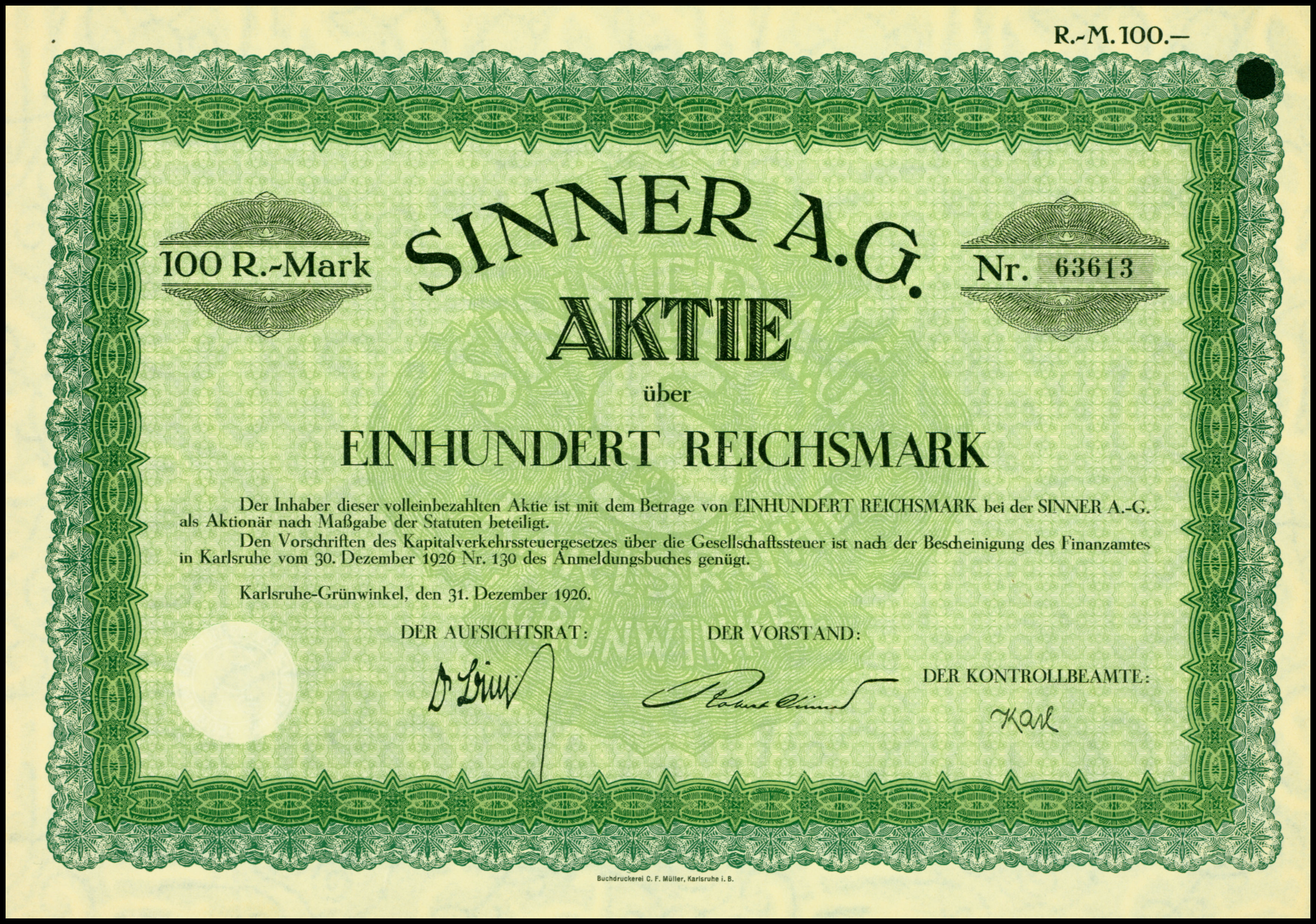 Share of the Sinner AG, issued 31st December 1926